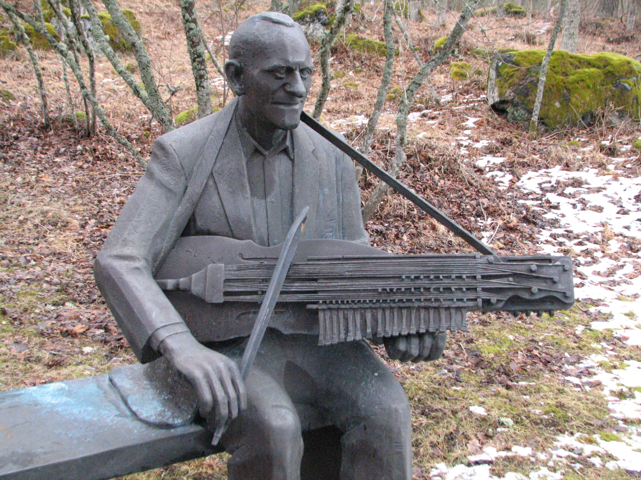 Monument of the famous Swedish nyckelharpa-player Eric Sahlström (1912 - 1986). The bronze statue was made by the musician and sculptor Ingvar Jörpeland 1992.